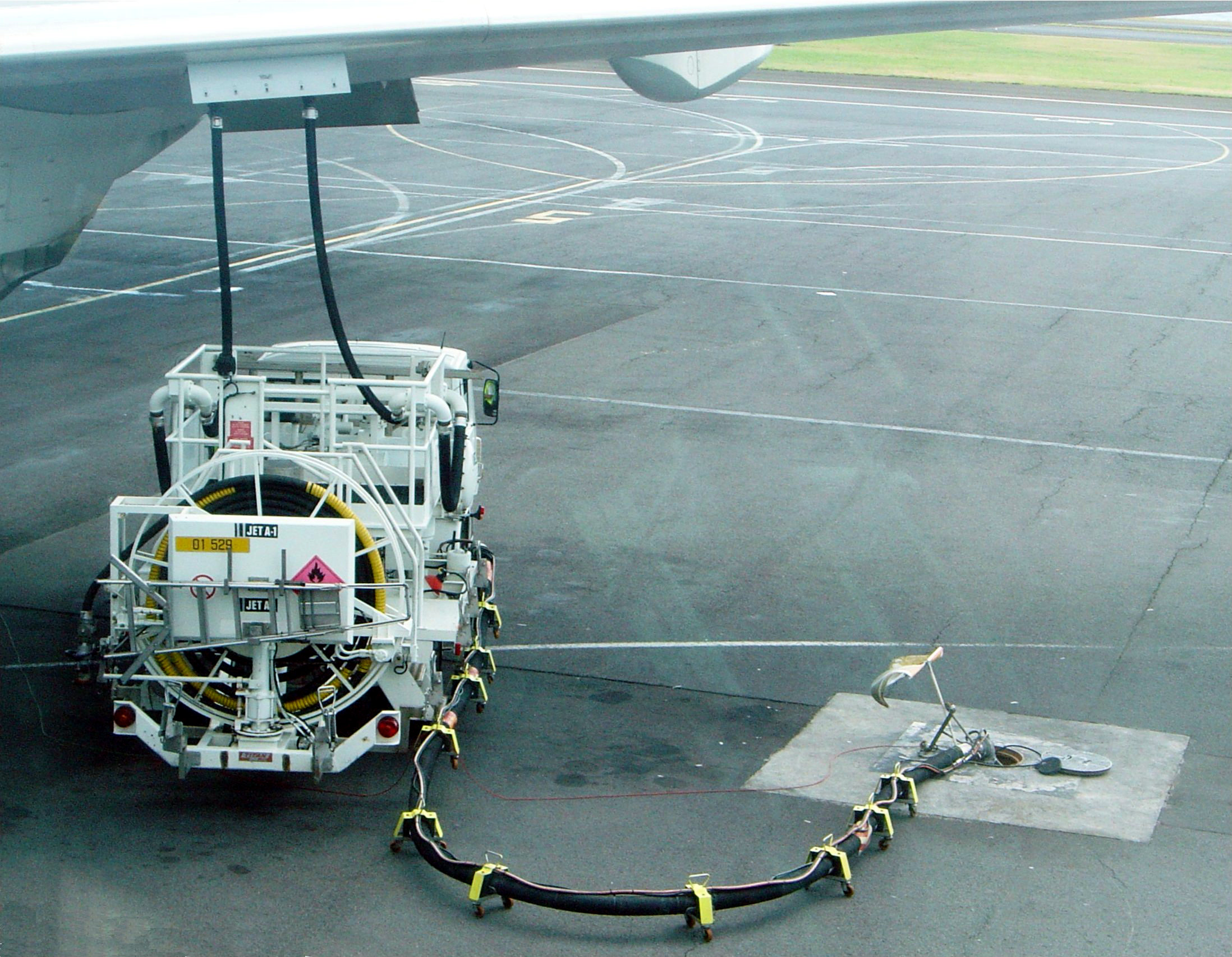 On Roland-Garros airport near Saint-Denis, Réunion island: a truck carrying refueling piping refuels a Air Austral Boeing 777 from underground pipes supplying Jet A-1 fuel (August 24, 2005)